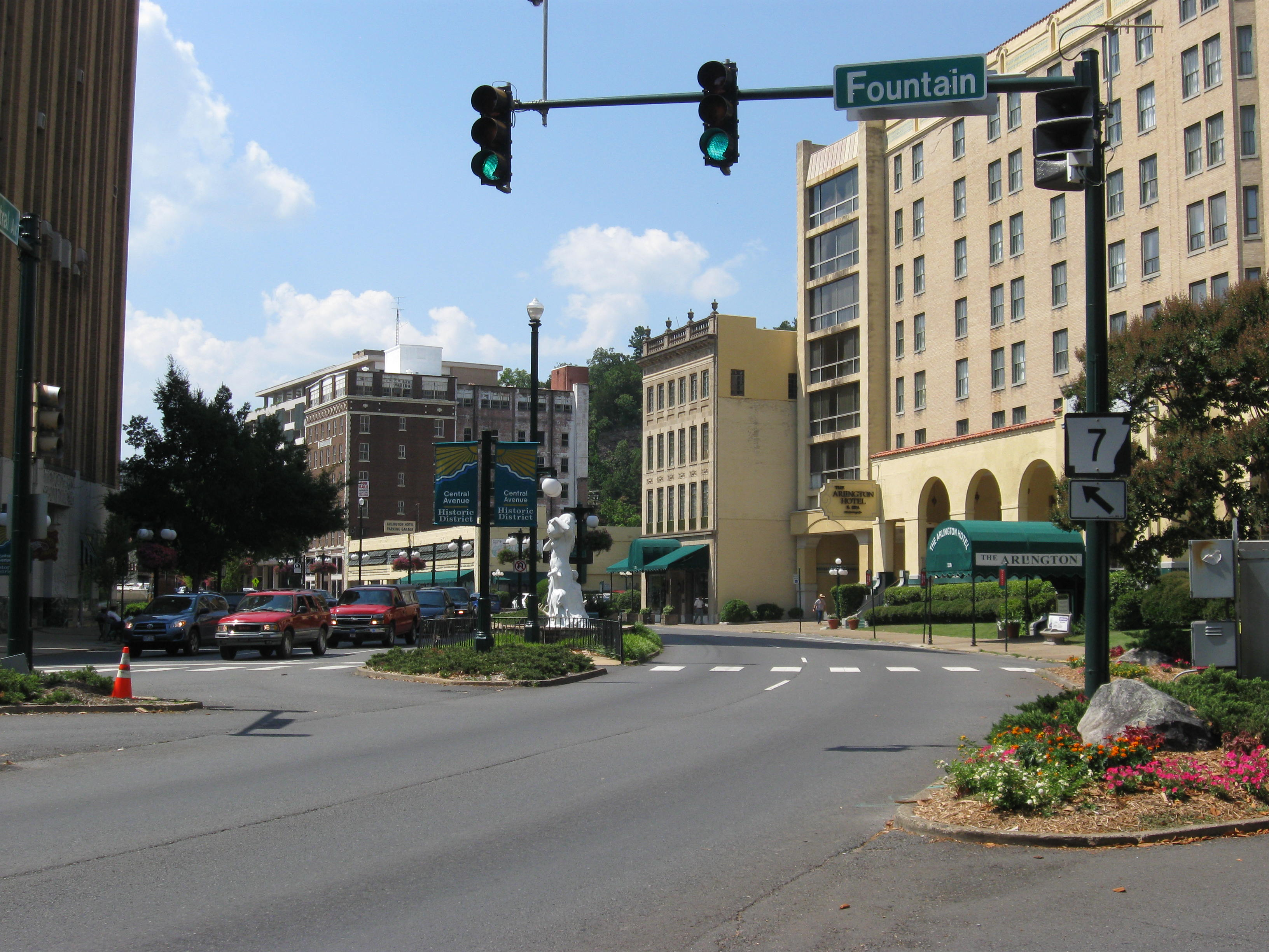 Picture of AR7 in Hot Springs